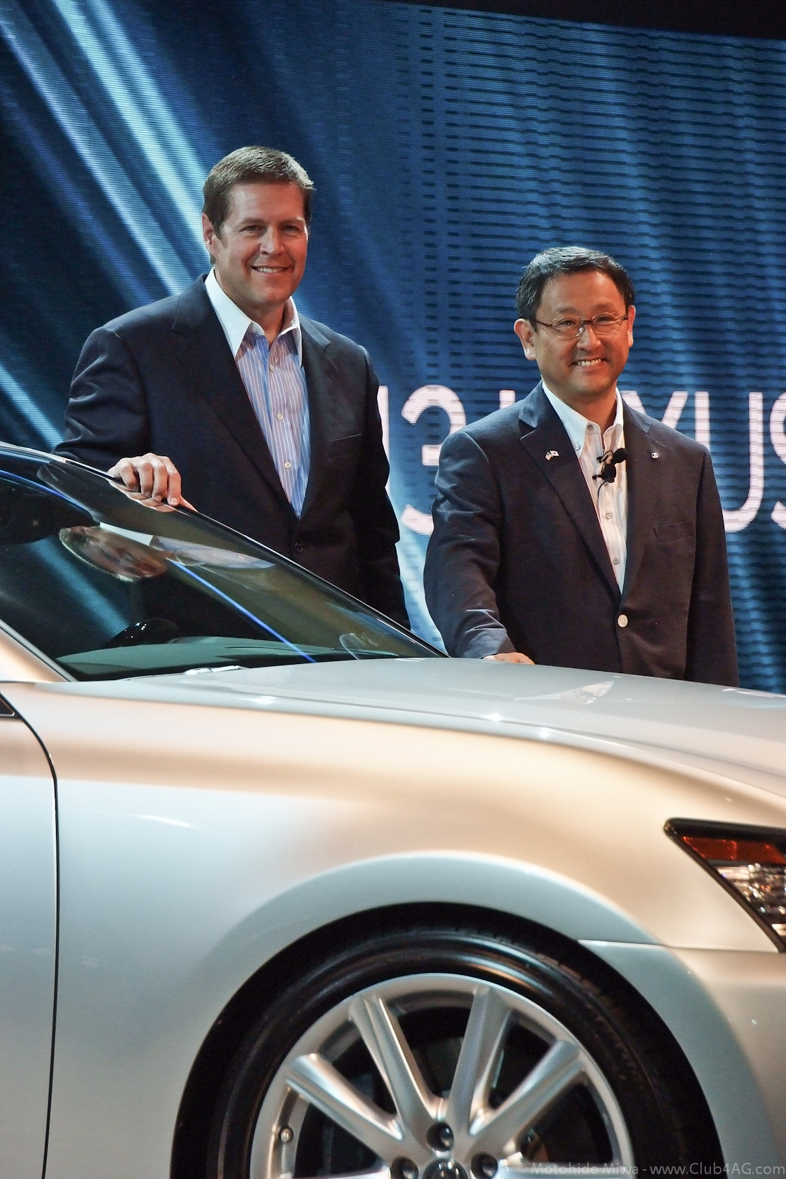 Akio Toyoda, President of the Toyota Motor Corporation, and Mark Templin, Executive Vice President of the Lexus International, attended the "Lexus GS Launch Event" in Monterey County, California State on August 18, 2011.